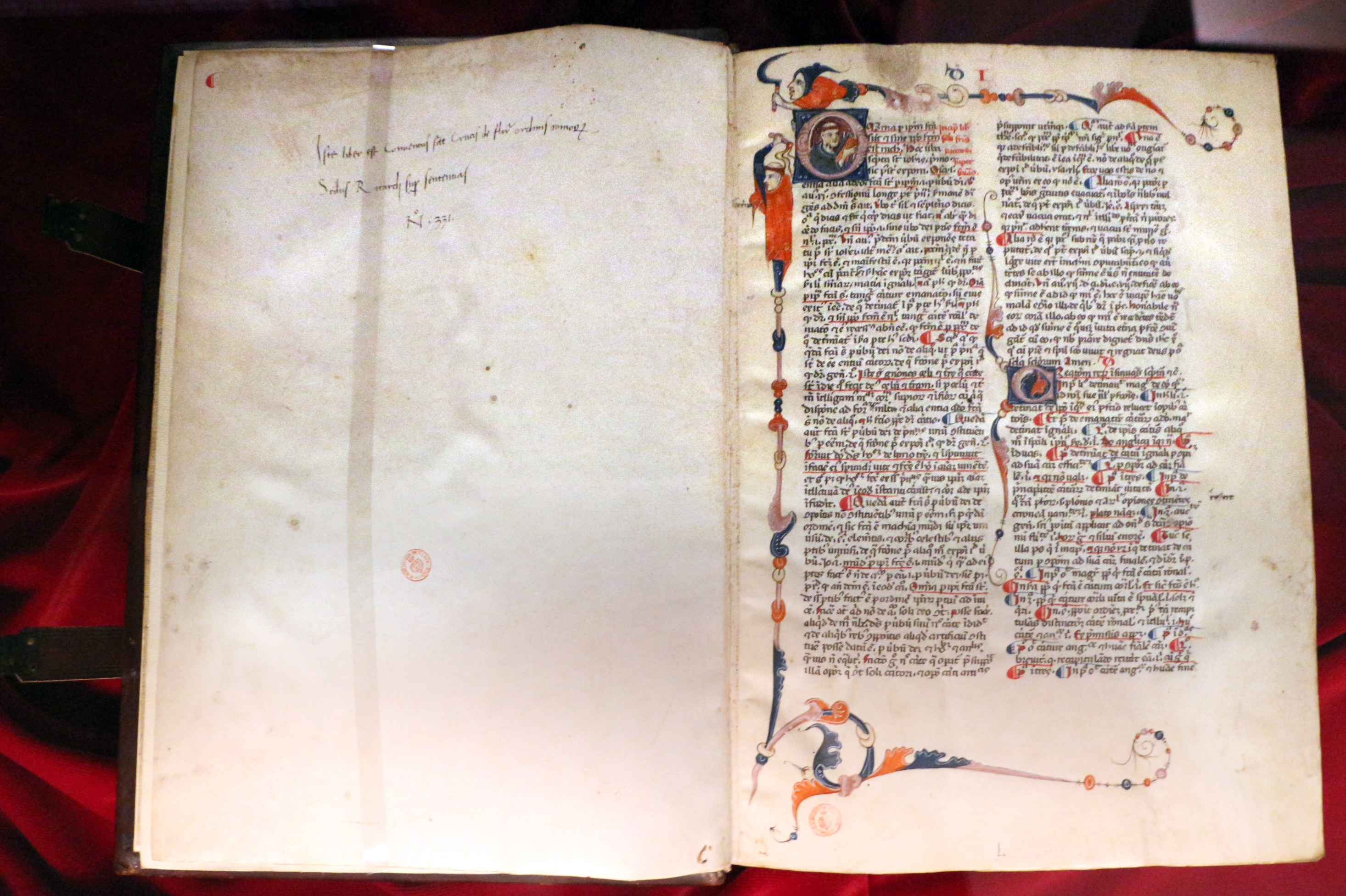 Biblioteca Medicea Laurenziana manuscripts